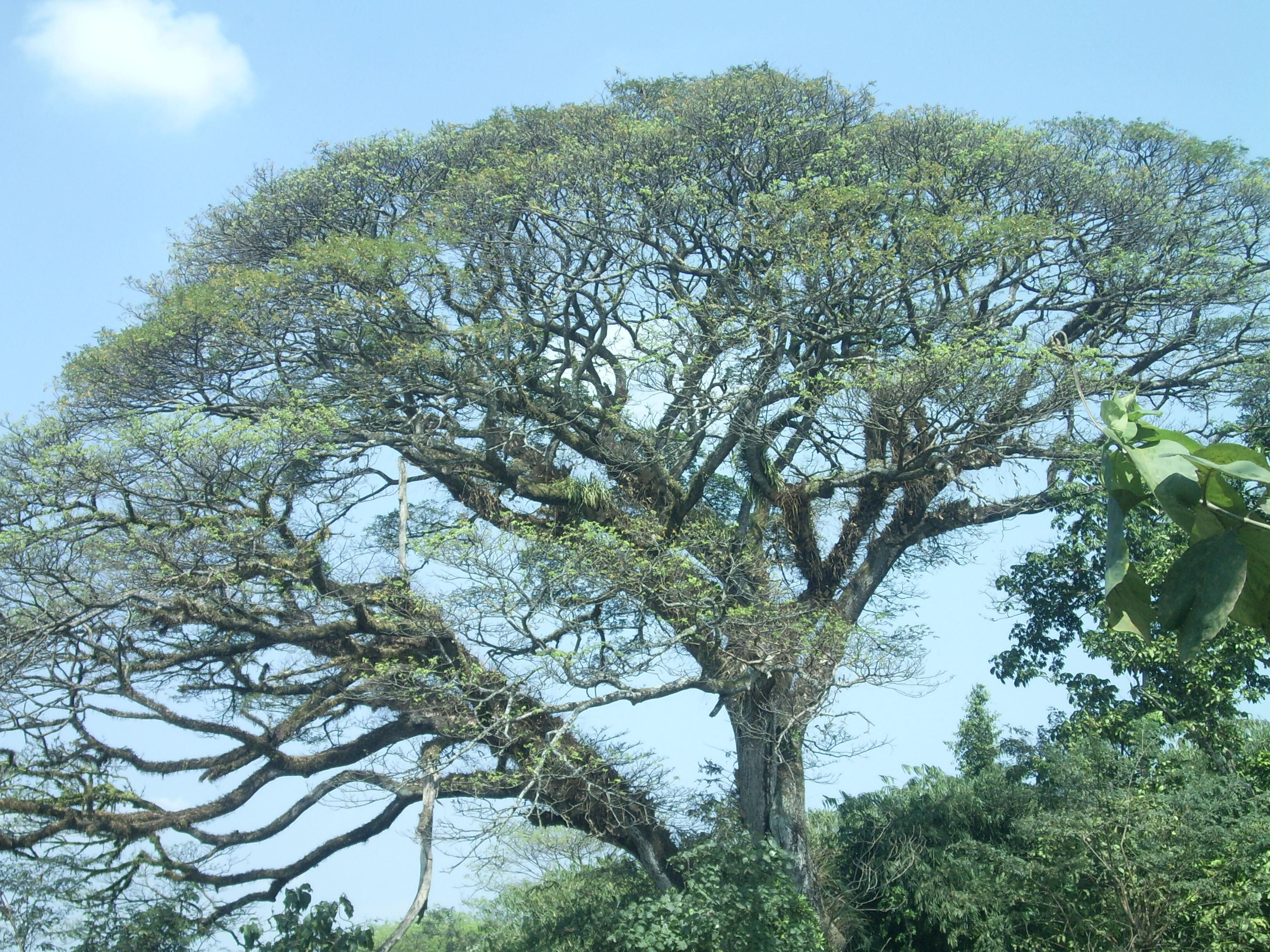 Acacia in Pokak